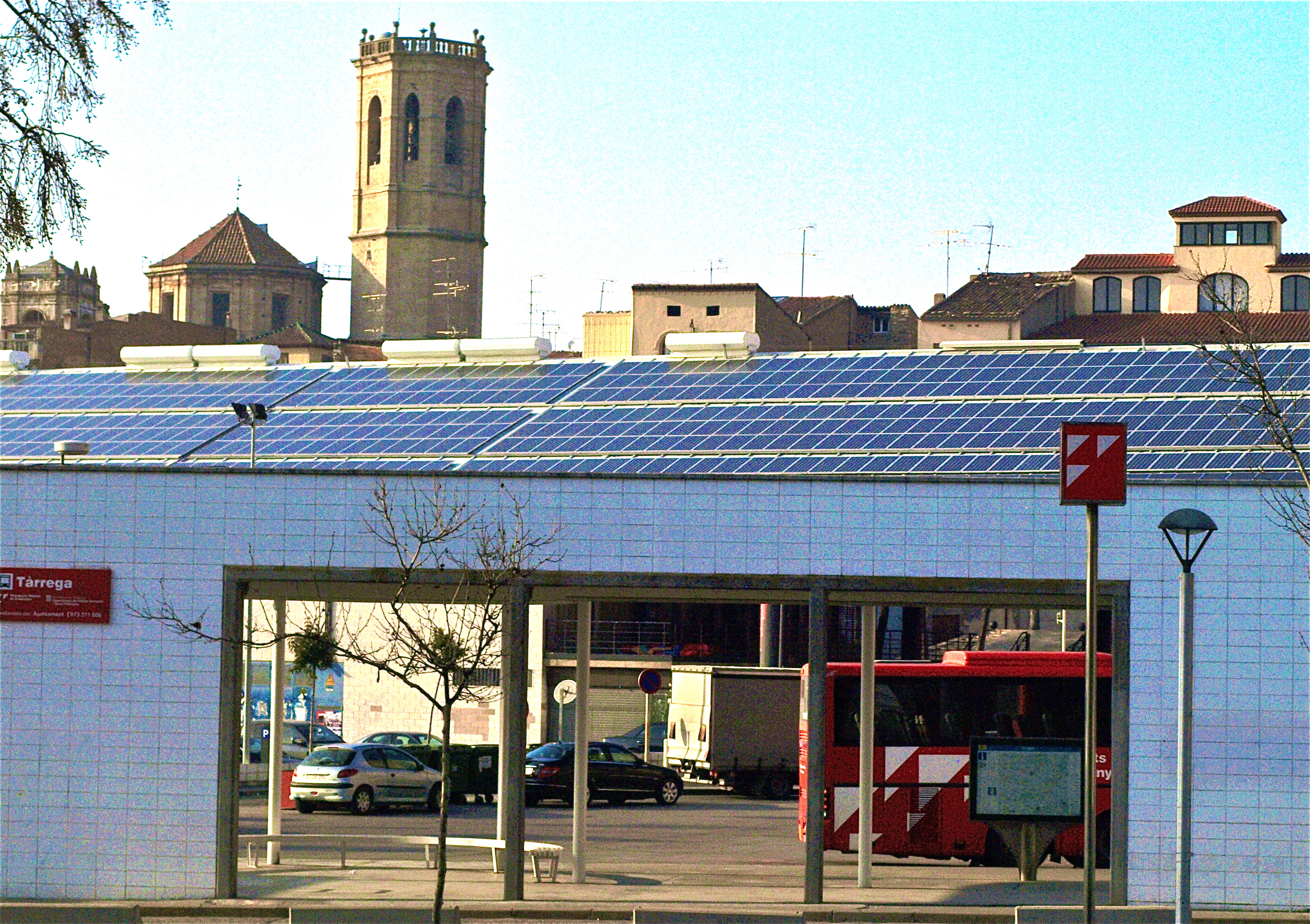 Photovoltaic roof over Tarrega bus station